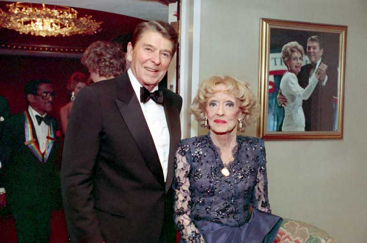 President Ronald Reagan with actress Bette Davis. Actor Sammy Davis, Jr. seen at left.